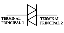 SIDAC